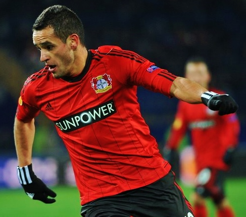 Renato Augusto